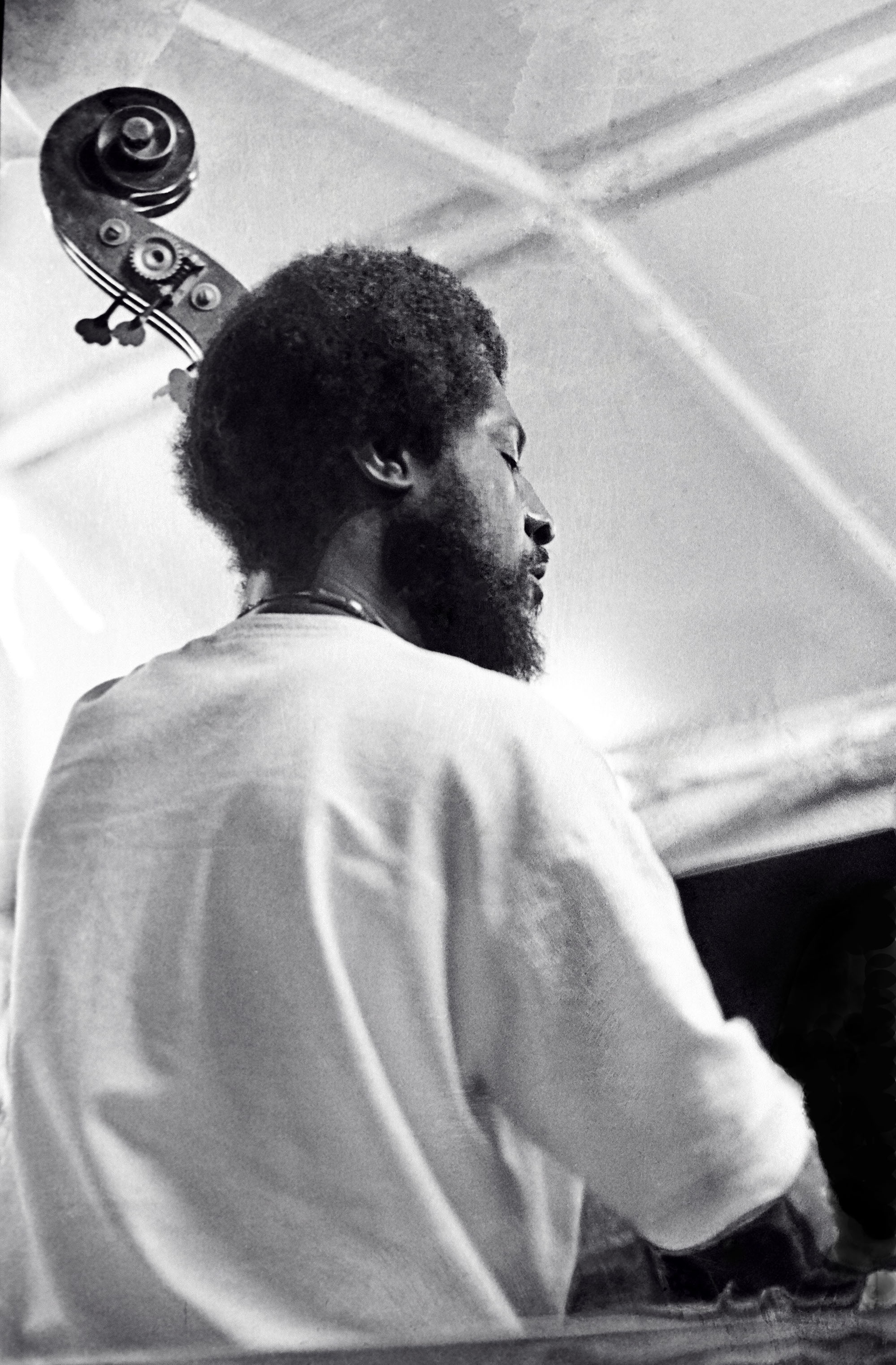 Victor Gaskin Jazzmobile concert Rochester, N.Y. 1977